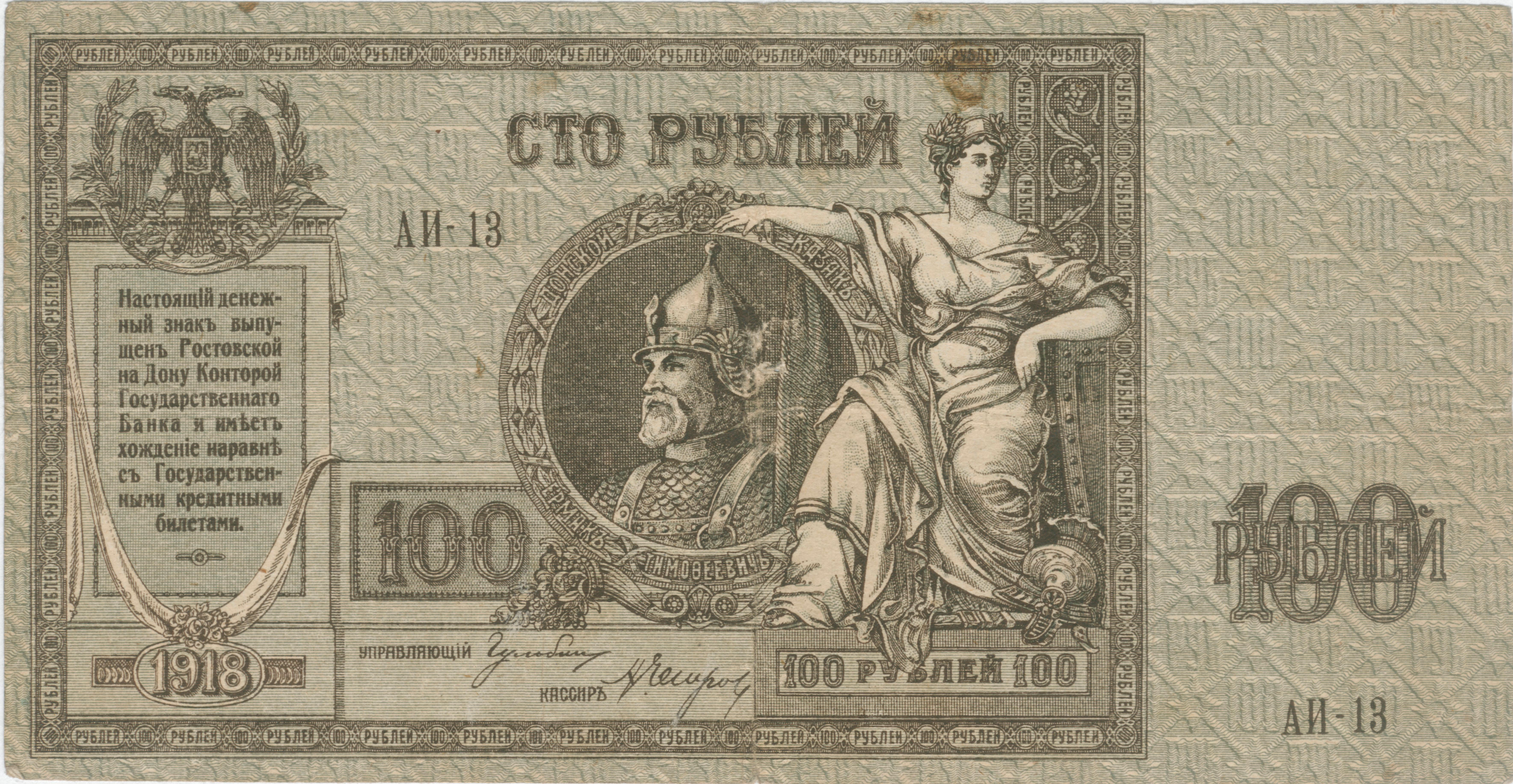 Russian Don banknote 100 rubles. 1918 year. F